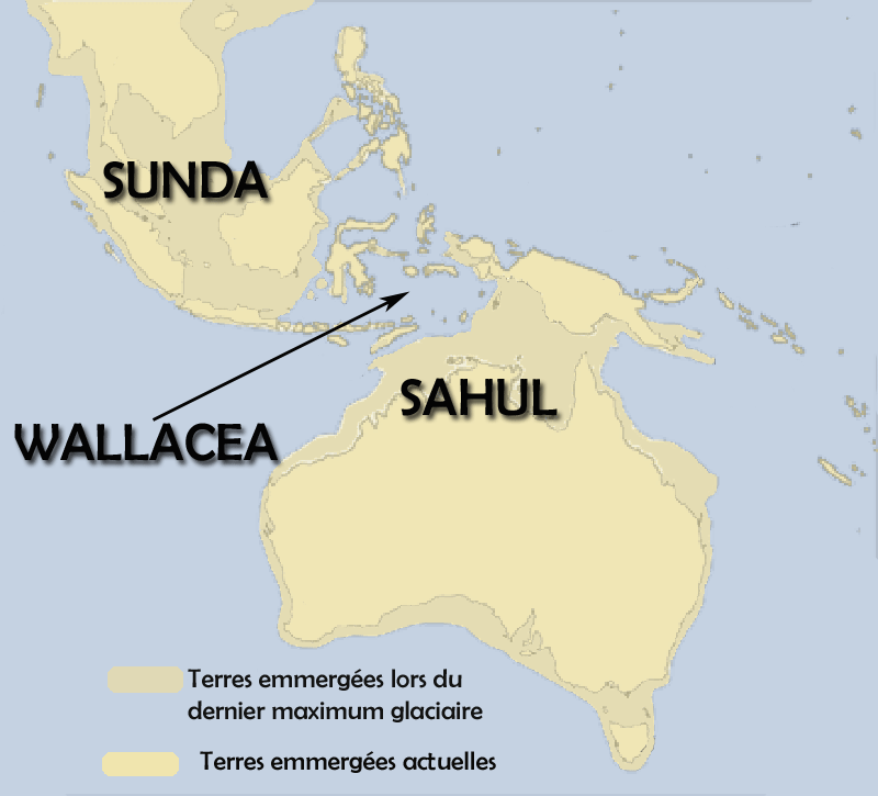 Sahul (Tasmania+Australia+New-Guinea) when the sea was 100 metres under the present level.